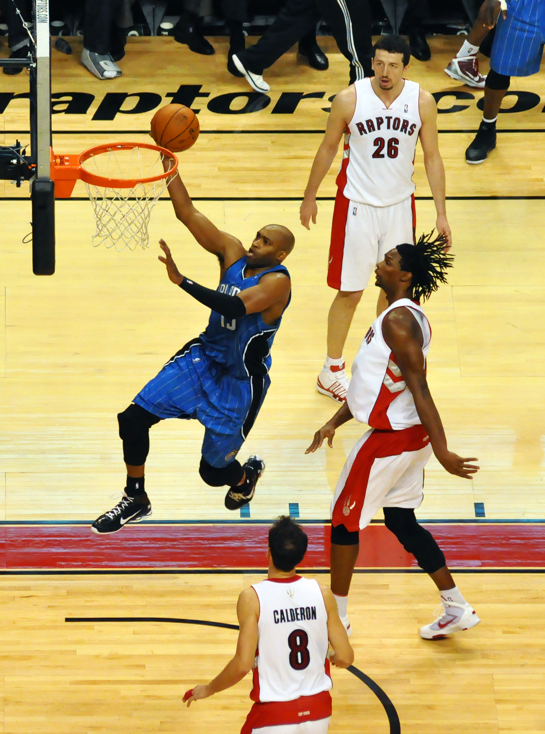 Vince Carter Orlando Magic v Toronto Raptors